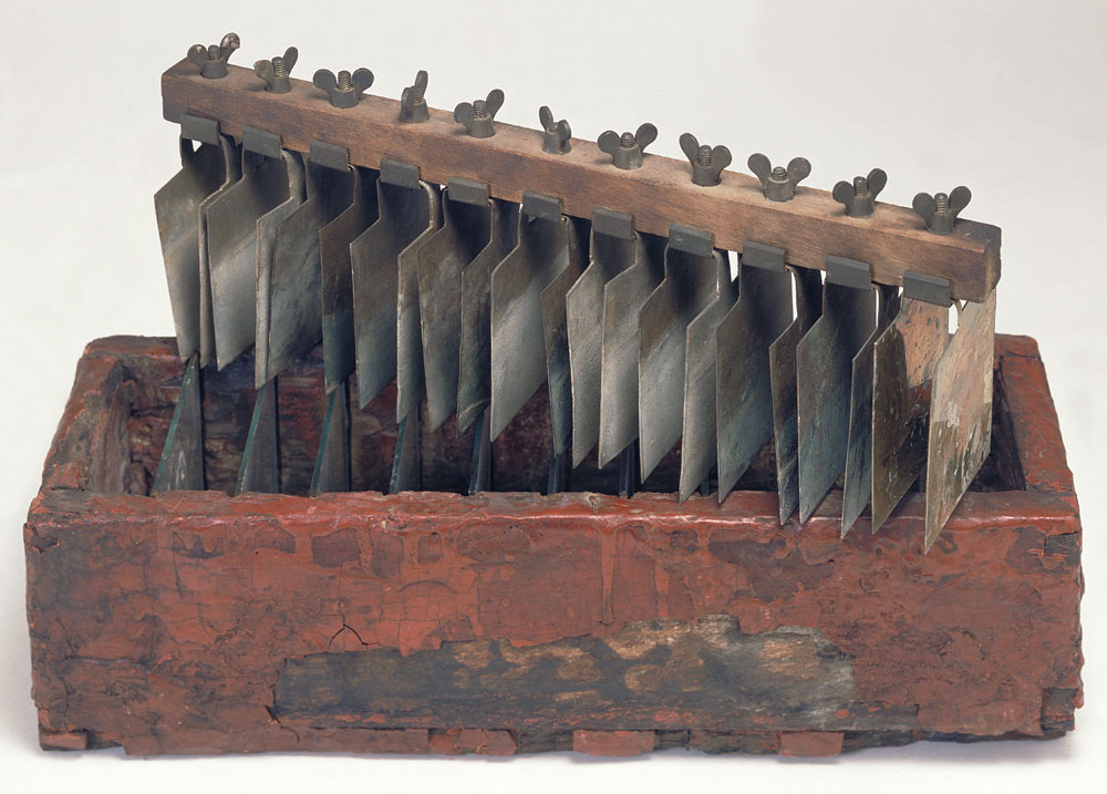 Artist Unknown authorAuthor Leopoldo NobiliDescription